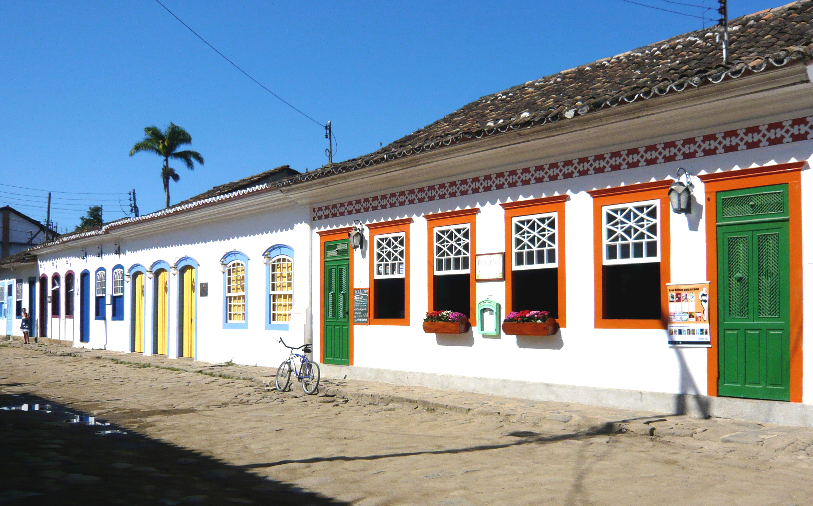 A street, Old Paraty, Rio de Janeiro, Brazil